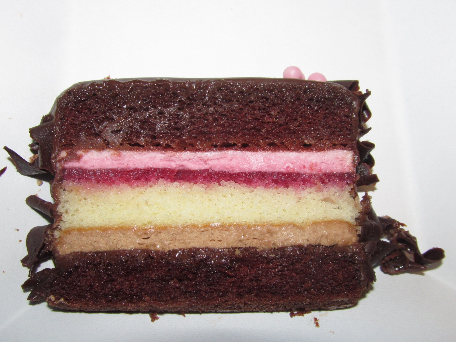 November 26th is National Cake Day!